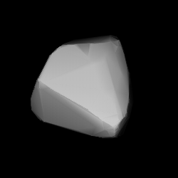 3D convex shape model of 1361 Leuschneria, computed using light curve inversion techniques. J. Hanuš, J. Ďurech, M. Brož, B. D. Warner (June 2011). "A study of asteroid pole-latitude distribution based on an extended set of shape models derived by the lightcurve inversion method". Astronomy and Astrophysics 530: A134. ISSN 0004-6361. arXiv